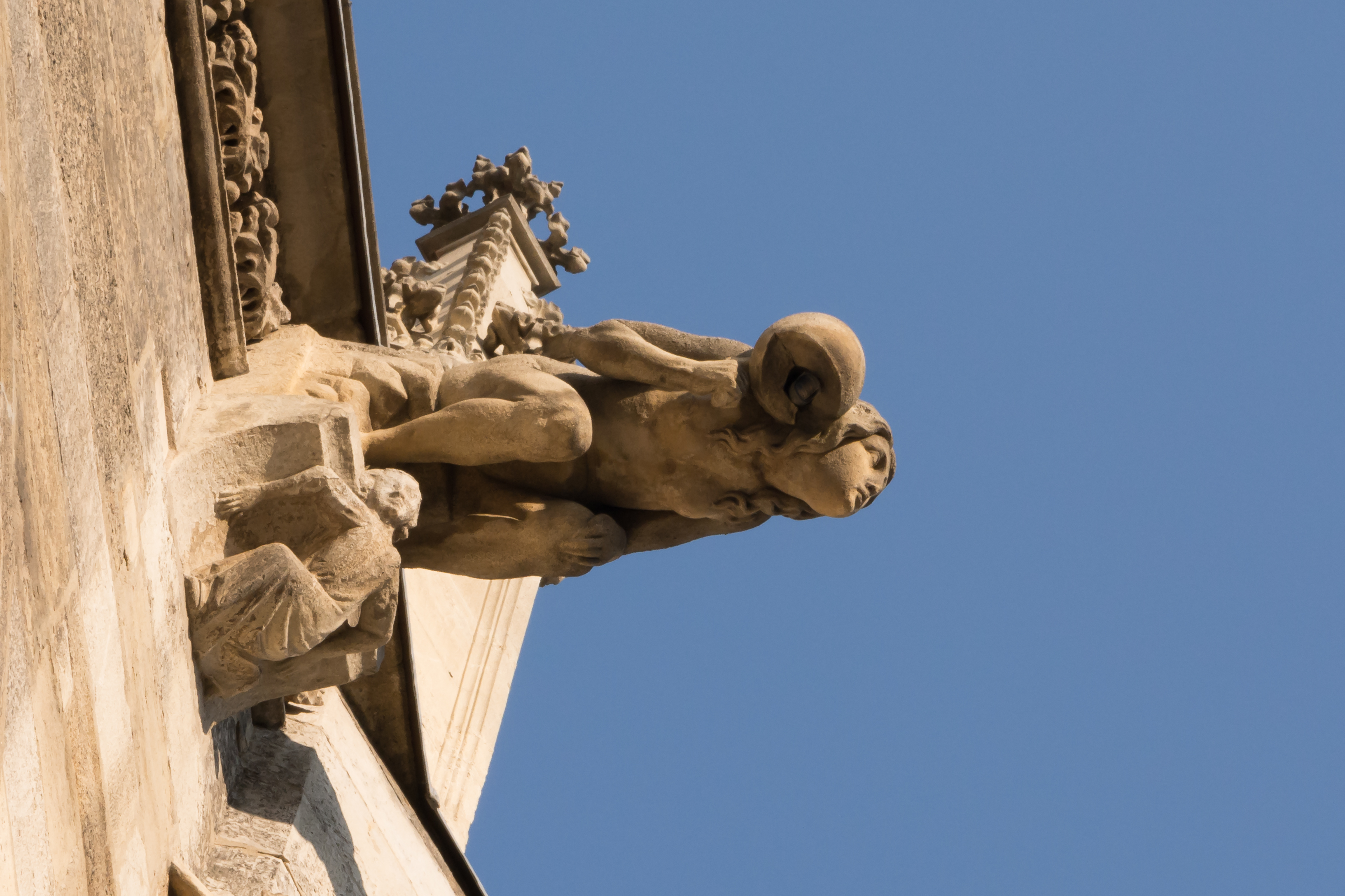 Gargoyle of St. Stephen's Cathedral, Vienna, Austria